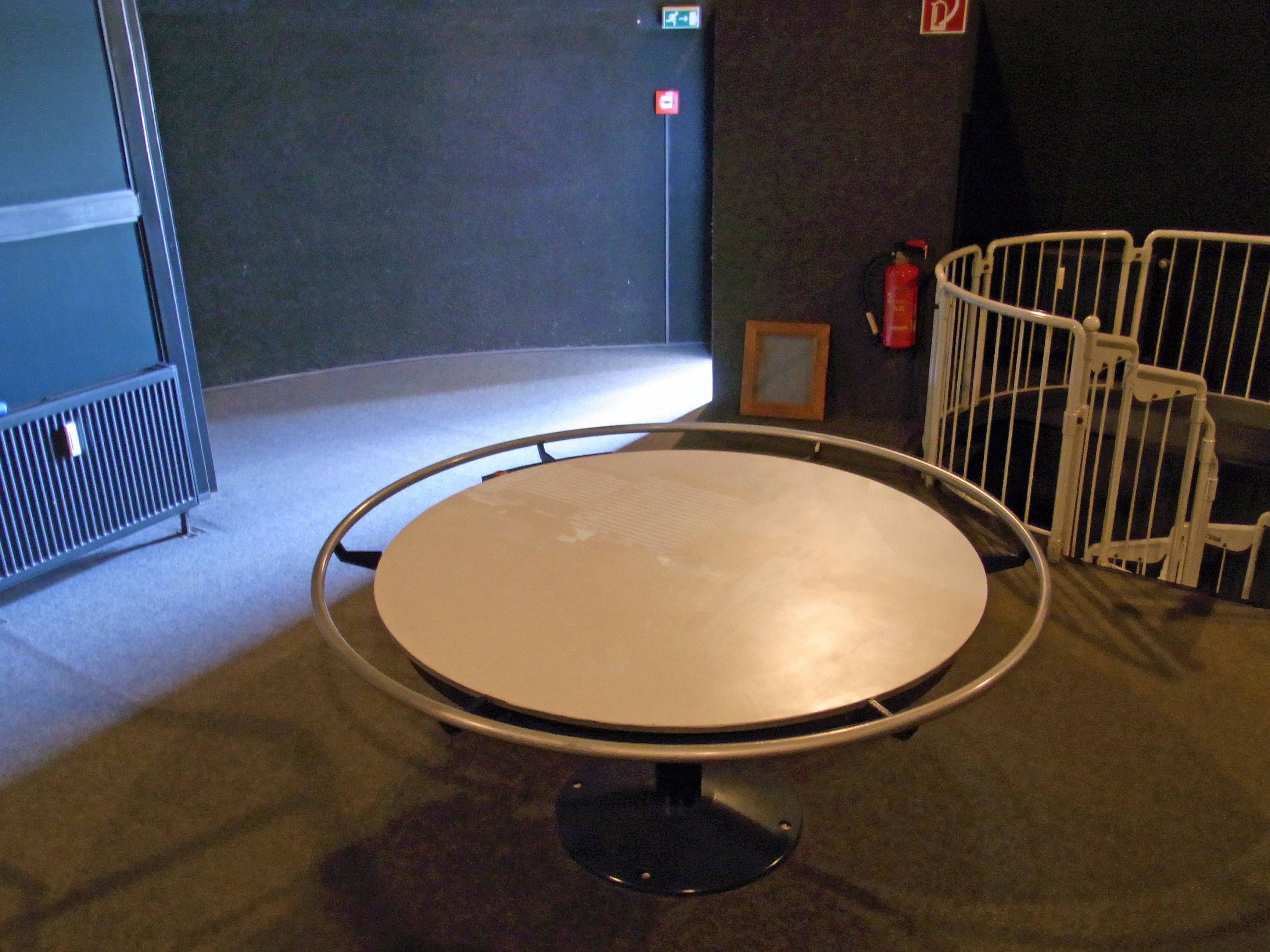 Camera obsura